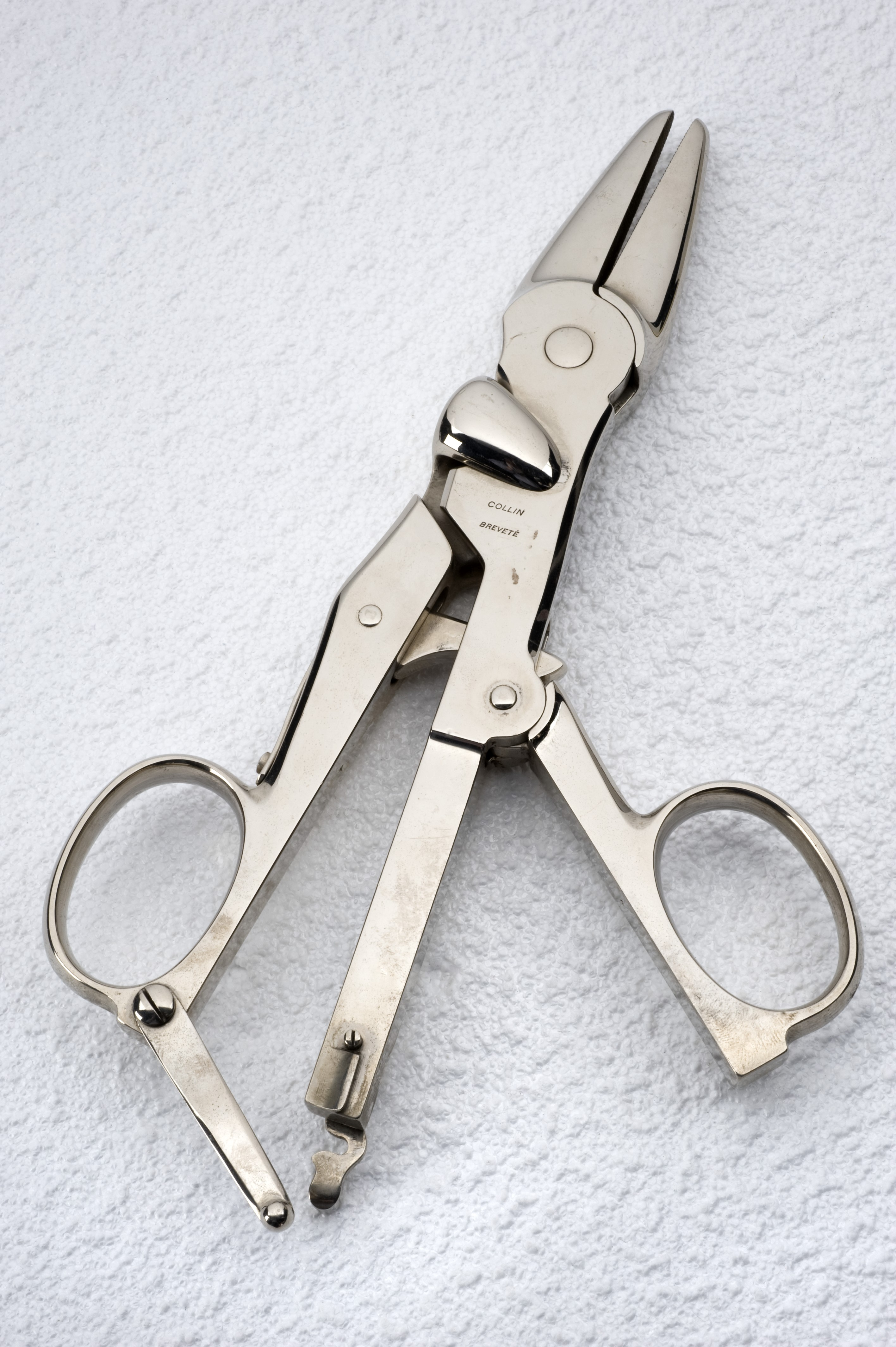 This clamp was used to prevent heavy bleeding between the uterus and the ovaries during a hysterectomy through the abdomen. This was a constant fear during the operation. The pressure of the clamp could be varied and applied in a number of areas at the same time. It was probably invented by Eugène-Louis Doyen (1859-1916), a French surgeon renowned from his skill and speed who invented a large number of surgical instruments to aid his work. Controversially, Doyen was filmed performing a hysterectomy. Later, copies of the film were illicitly distributed in fairgrounds and amusement parks. maker: Collin Place made: Paris, Ville de Paris, Île-de-France, France Wellcome Images Keywords: clamp; Hysterectomy; Abdomen